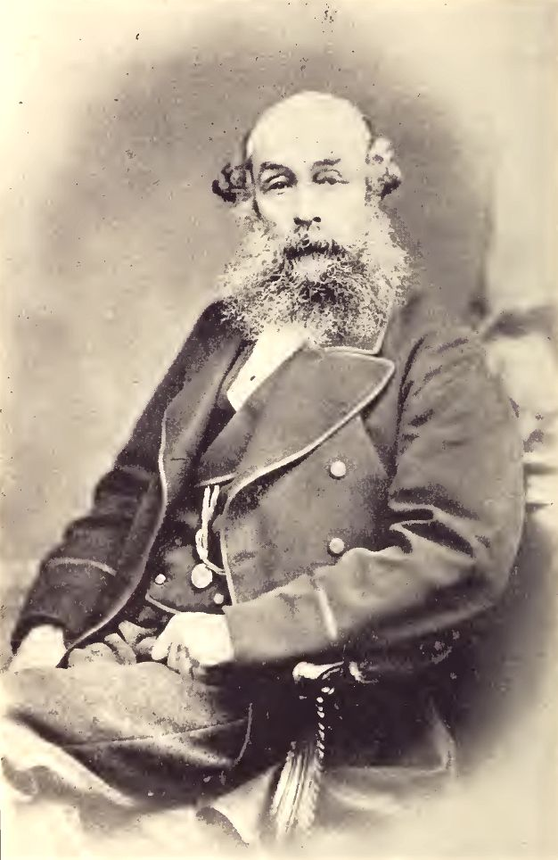 Photo of Robert Campbell, of the Hudson Bay Company